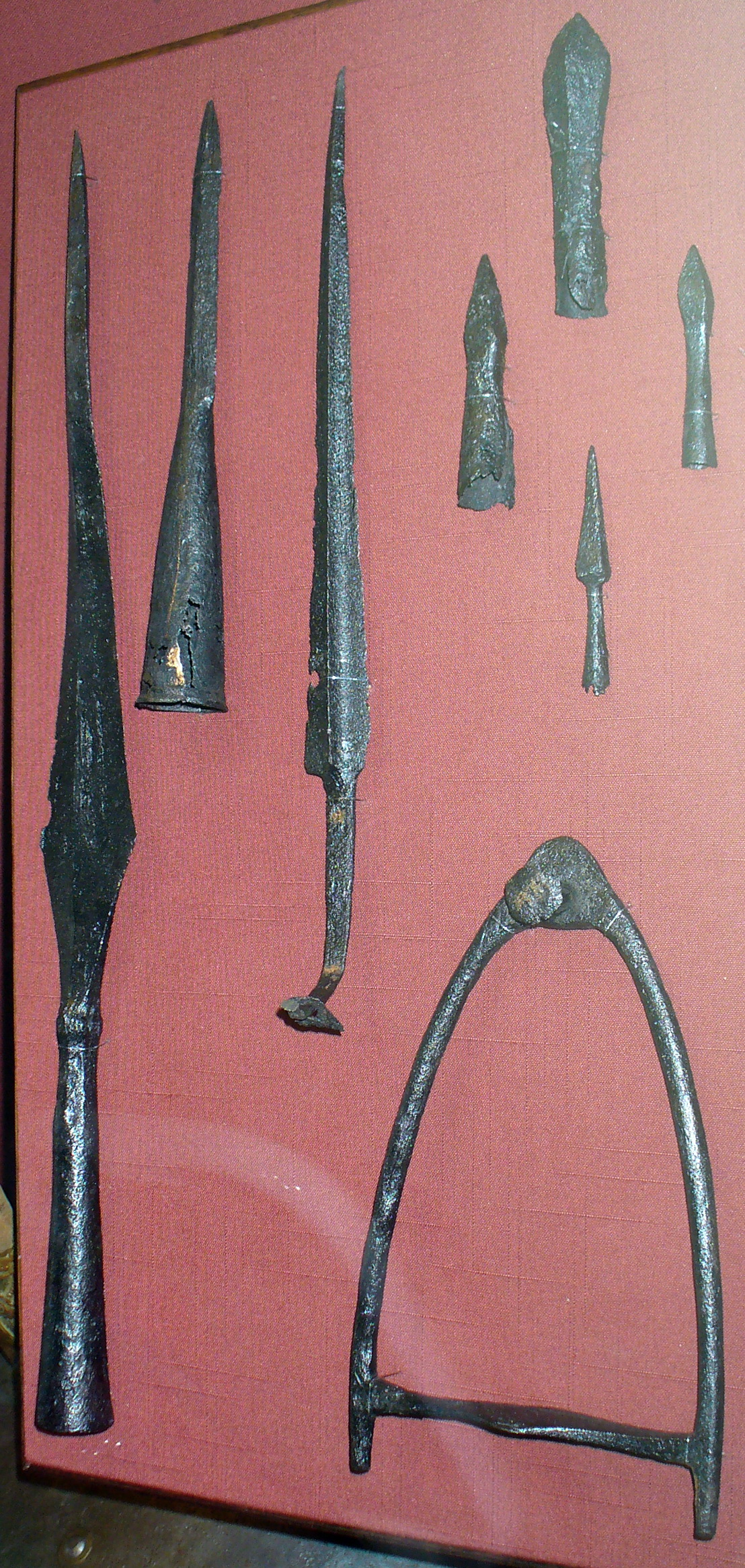 Spearheads, arrowheads, stirrup. Russia, 13-14 c.